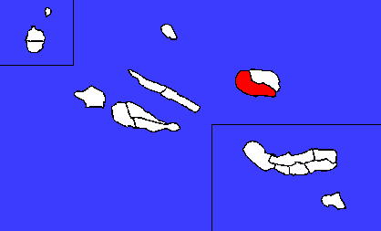 Location of the Portuguese municipality of Angra do Heroísmo within the Azores archipelago. Made by Afonso Silva.